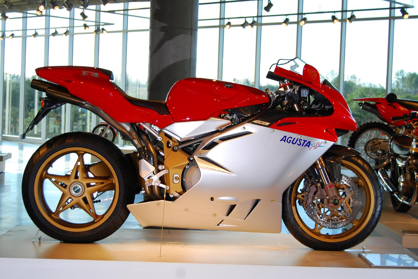 1998 F4S